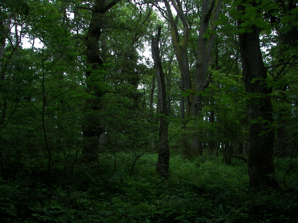 The picture was taken during a research project and visiting the island did not violate the rules of Moricsala strict nature reserve